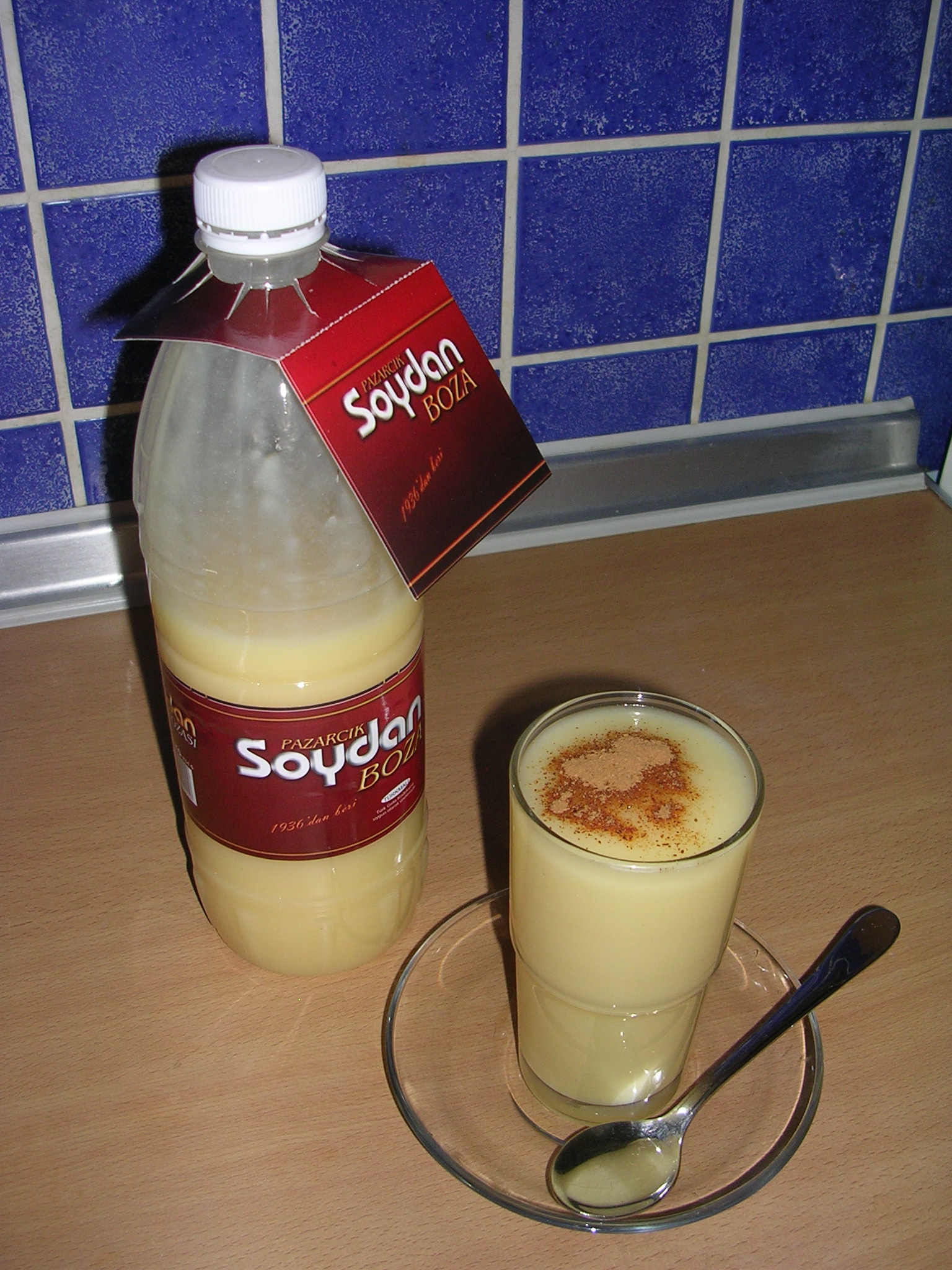 a glass of boza with cinnamomum in Turkiye